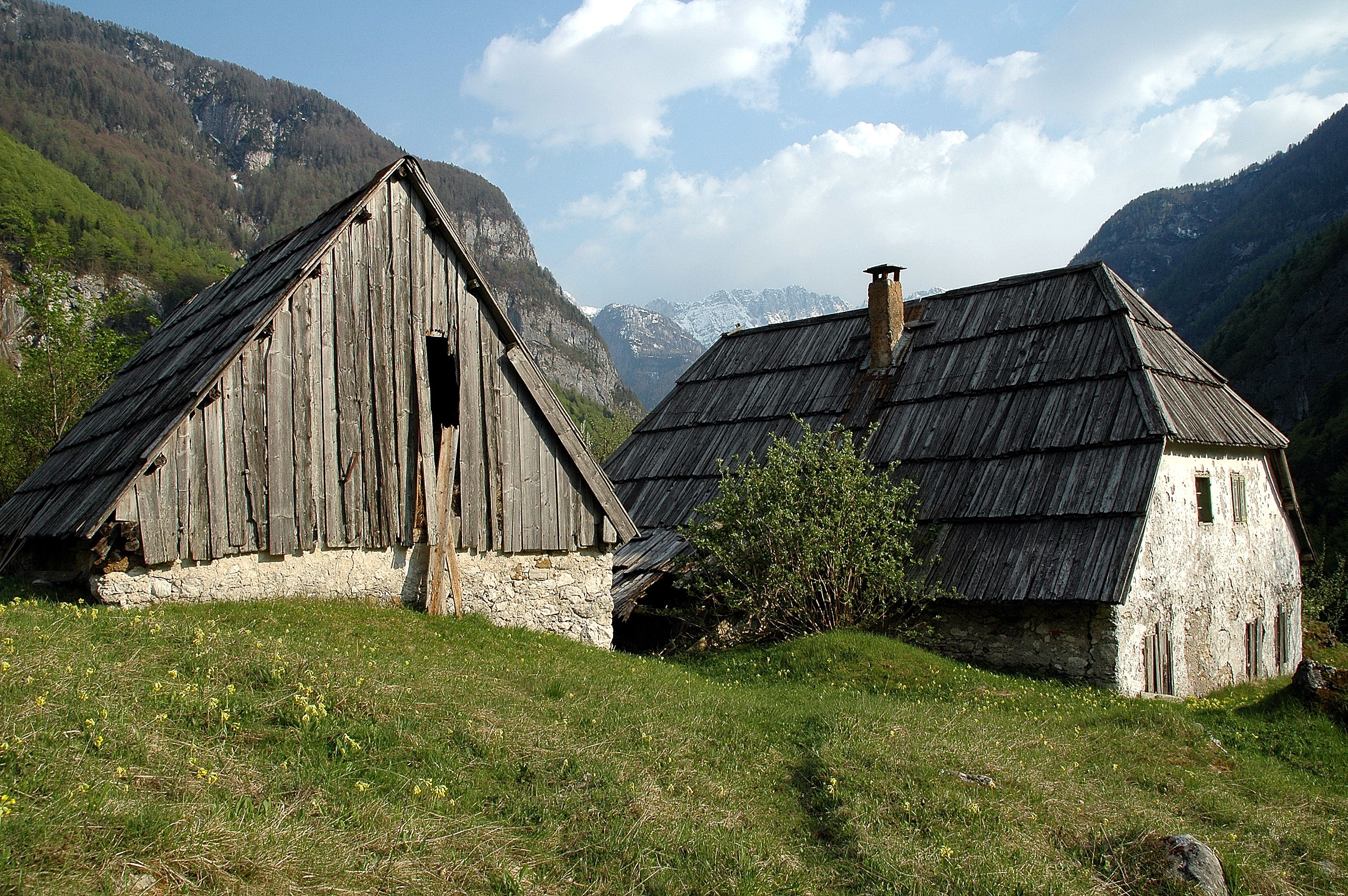 Traditional farmhouse (upper Trenta of the high Soca) in the Julian Alps, part of the Triglav National Park, Slovenia